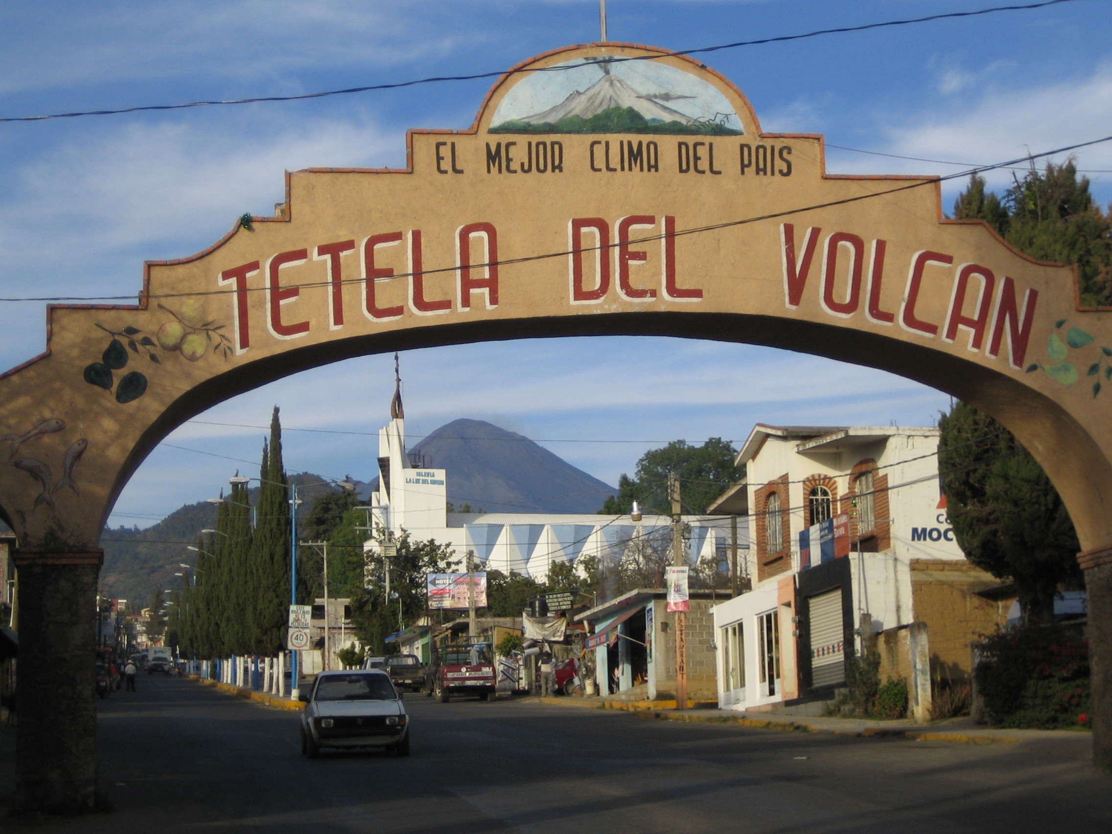 Entrance arc to Tetela del Volcan, Mexico